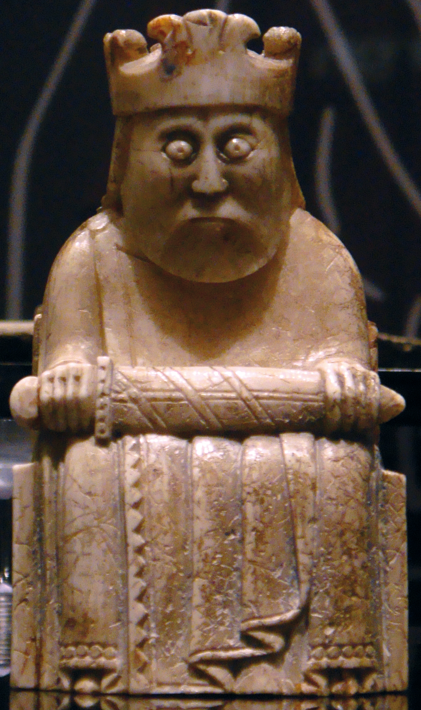 A king piece of the so-called Lewis chessmen. This image is a cropped version of File:Lewis chessmen 14.JPG.